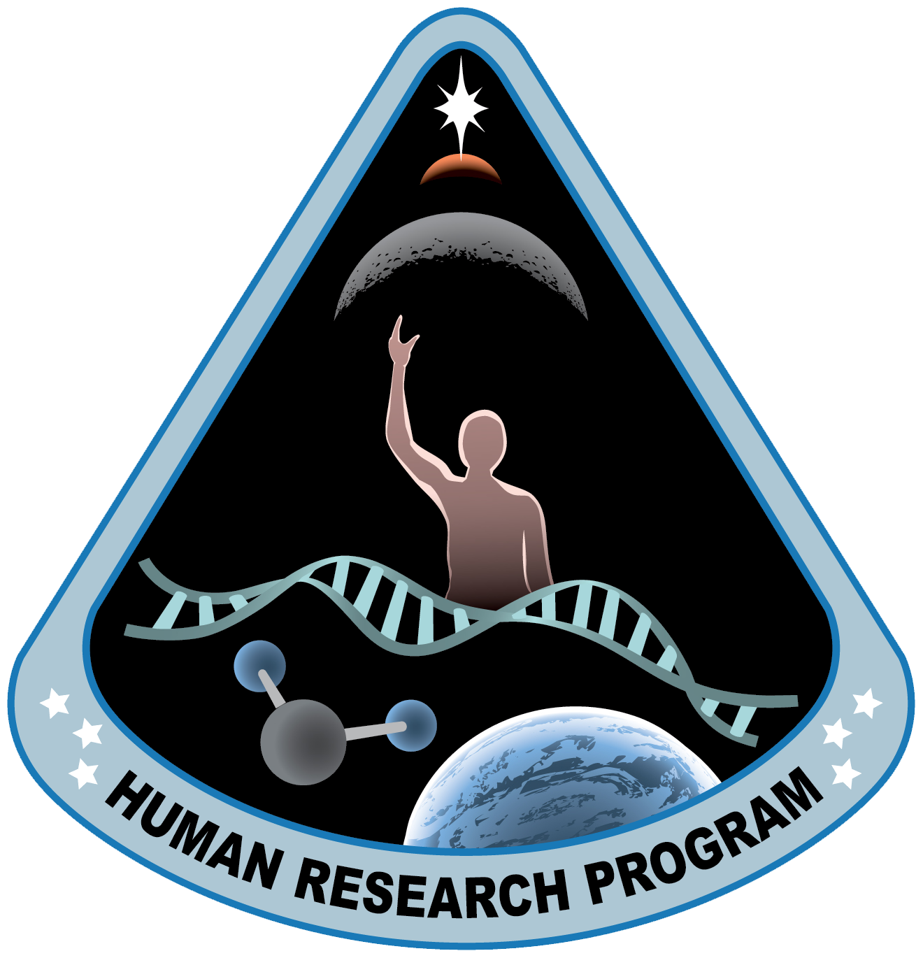 The Human Research Program logo with transparent background in PNG 24-bit format.